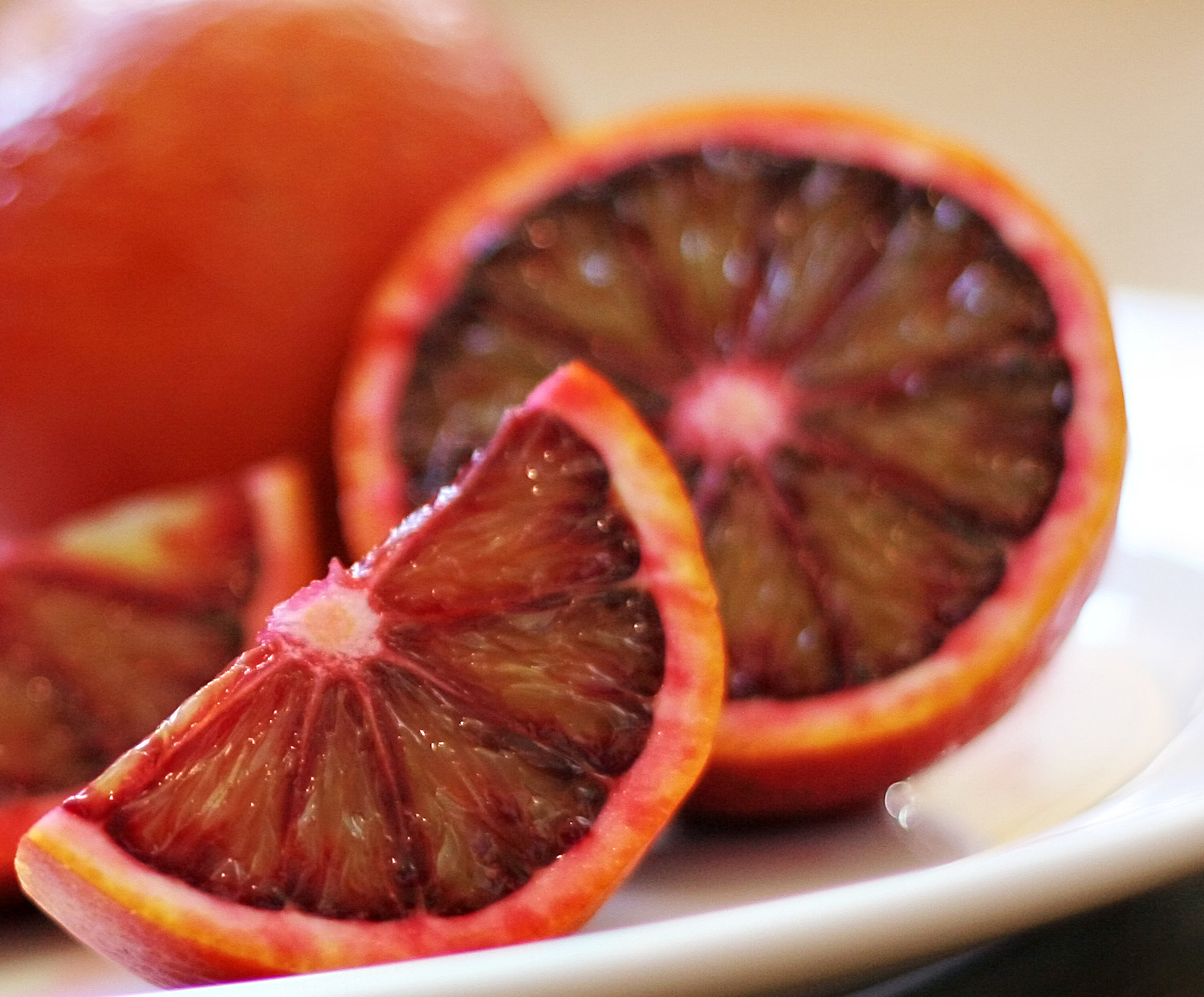 Blood oranges